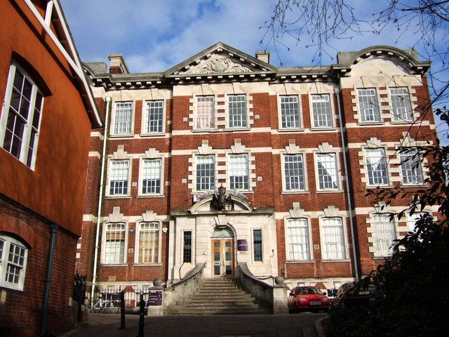 Exeter Phoenix Exeter's Arts Centre, on Bradninch Place off Gandy Street. Built in 1907-9, it was formerly part of the University. The curious phoenix figure can be made out over the entrance.